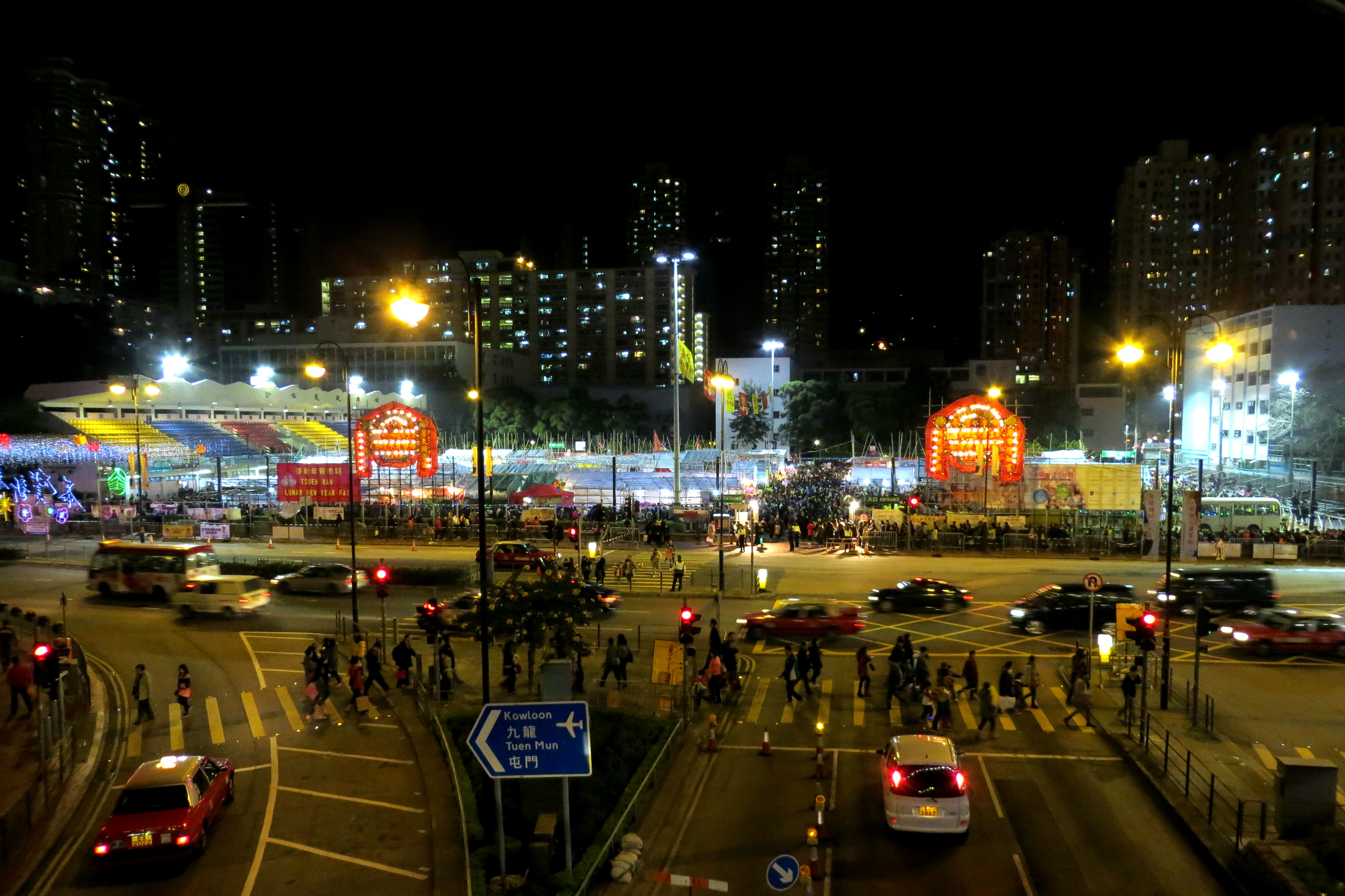 2013 Lunar New year Fair stalls at Sha Tsui Road Playground, Tsuen Wan, New Territories, Hong Kong.